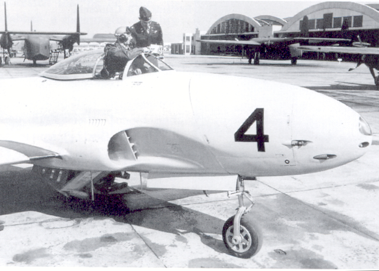 The F-80 Shooting Star, first introduced into the Test Pilot School curriculum in August 1947, allowed students to learn the unique characteristics of jet aircraft. Major Nathan Rosengarten, Chief, Air Technical Service Command Flight Research Branch, checks data with pilot Captain Conrad Nelson (45F).